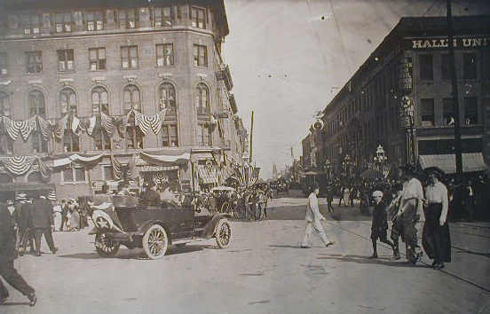 Mitchell St. Atlanta